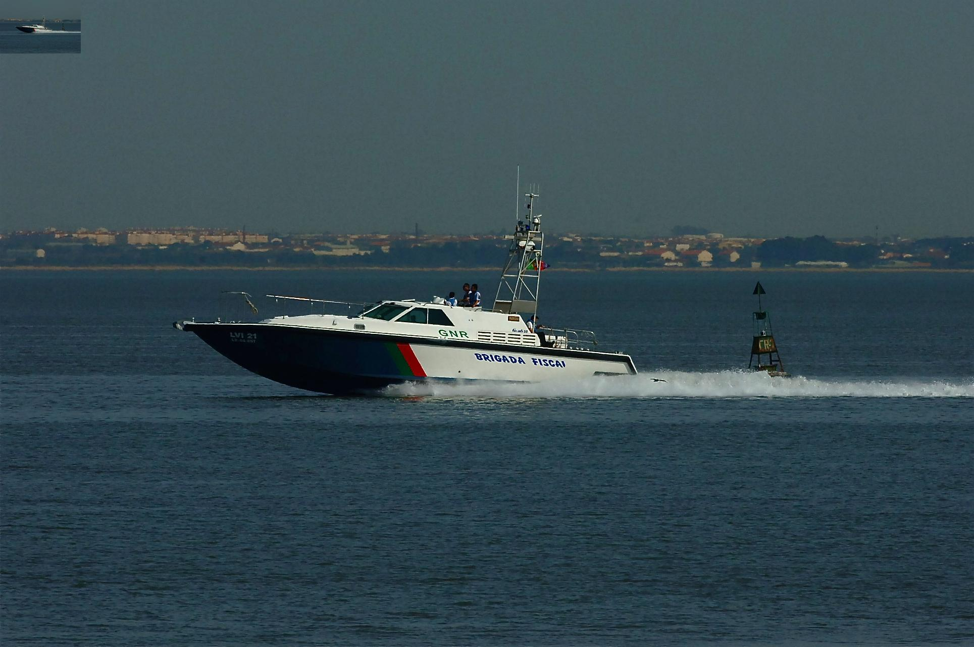 Brigada Fiscal boat in Tagus's River, Lisbon, Portugal.